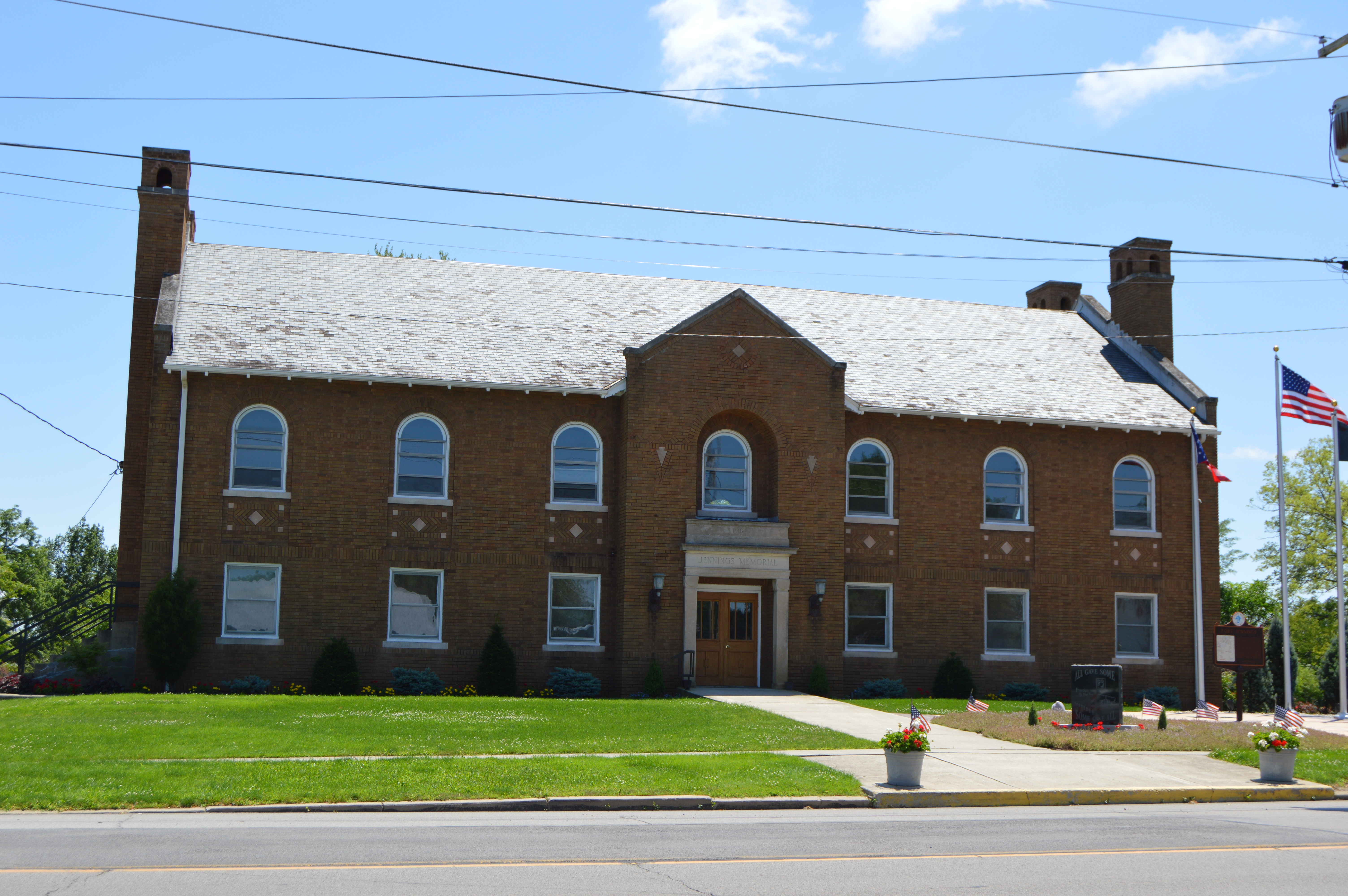 Front of the Fort Jennings Memorial Hall, located at 364 Water Street (State Routes 189/190) in Fort Jennings, Ohio, United States. Built in 1916 as a war memorial, it has served as a community center and was formerly the village's library and museum.